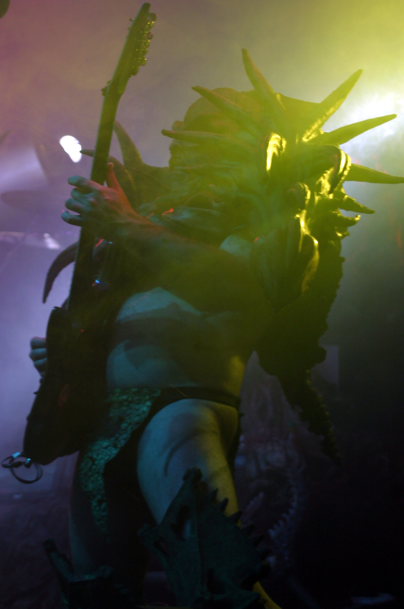 Flattus Maximus of GWAR Live in Concert